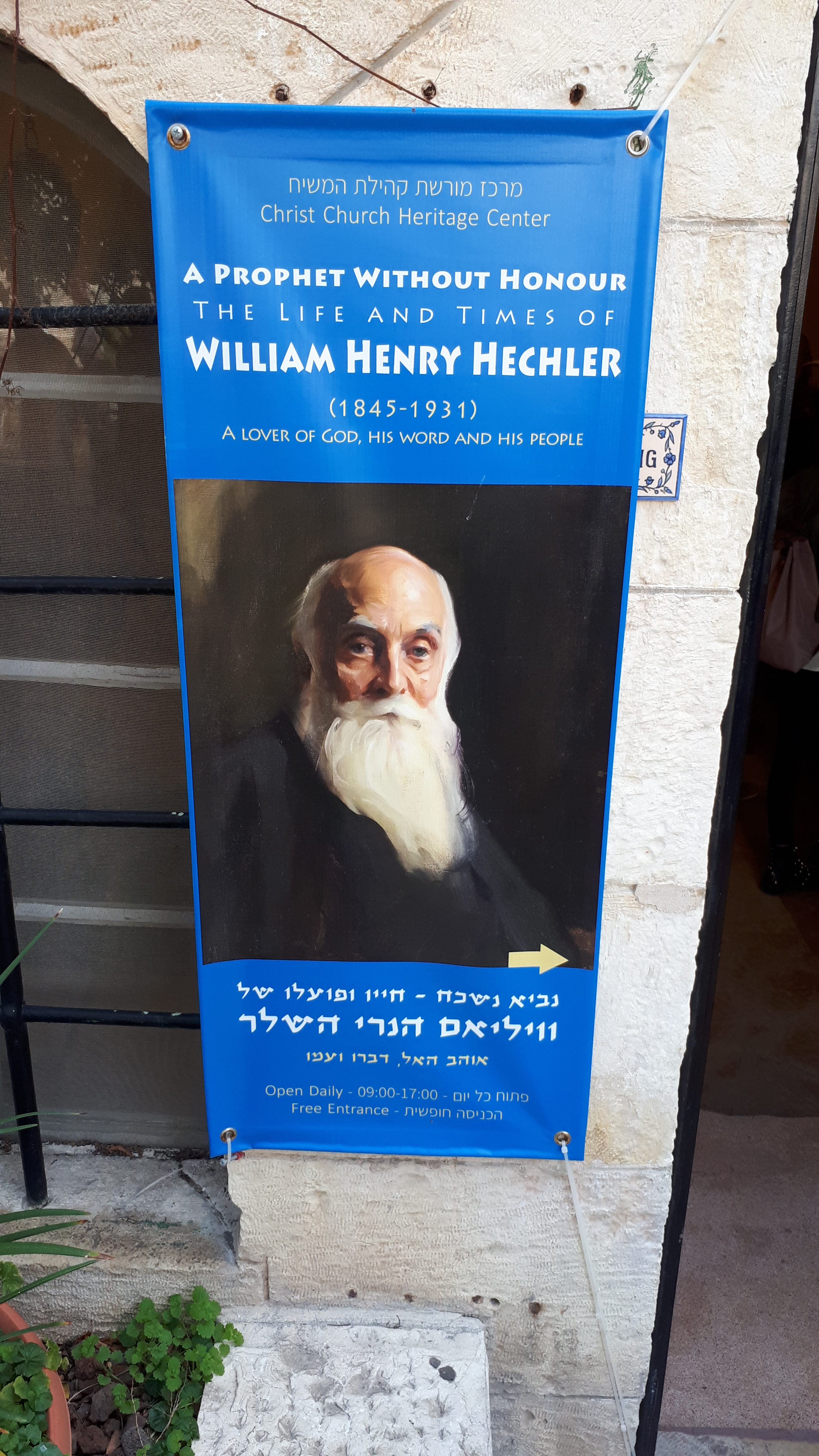 Hechler exhibition at Christ Church Heritage Center, Jerusalem, Israel